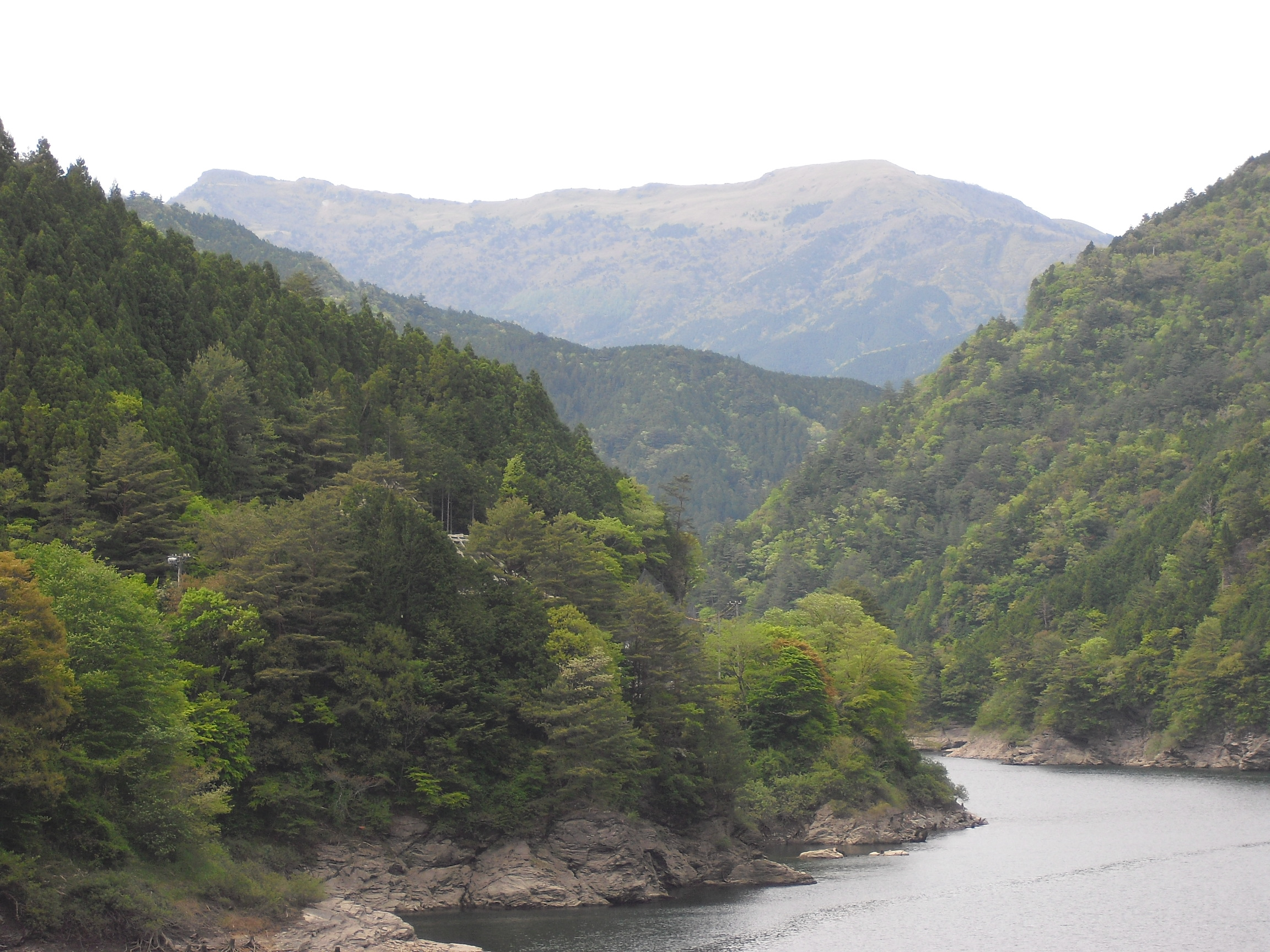 Mount Heikedaira as see from the south. Taken from Kinonesanri Bridge.